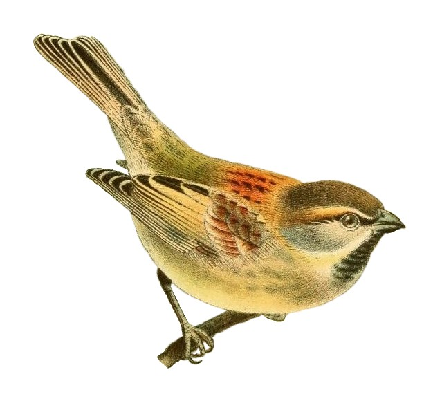 A cut-out from J. G. Keulemans's illustration of Passer yattii (now Passer moabiticus yattii) from its original description in the Transactions of the Linnean Society of London